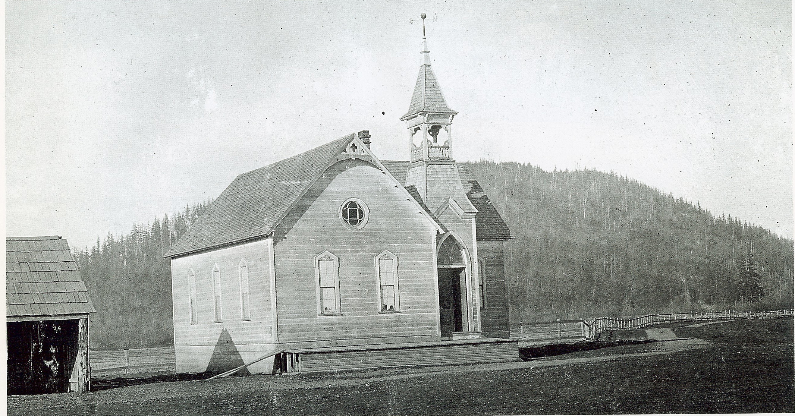 Sumas Methodist Church near Chilliwack before 1900. Church was located off Yale Rd near Greandale. George Chadsey donated the land to build the church